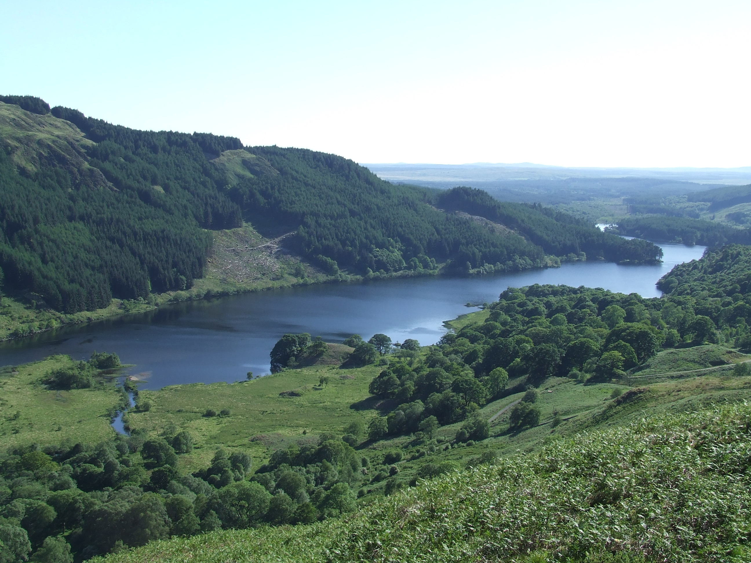 Glen Trool and Loch Trool looking approx WSW